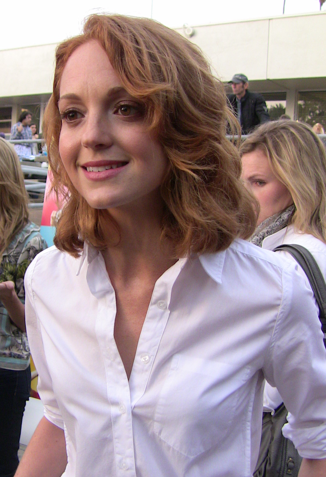 Actress Jayma Mays at premiere party of TV series Glee, Santa Monica, California.